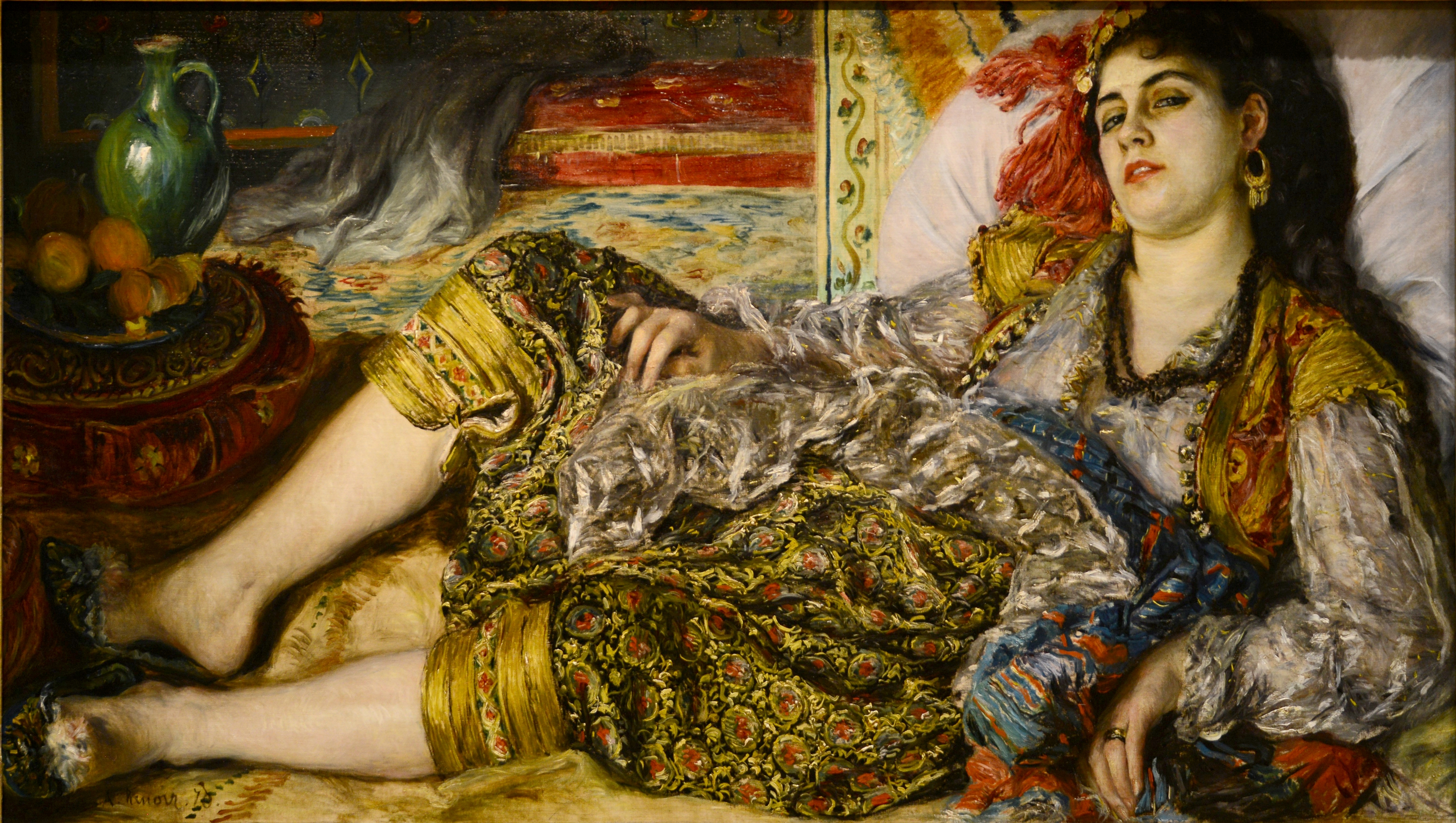 Odalisque, by Auguste Renoir (1870). National Gallery of Art, Washington